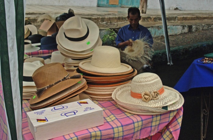 PANAMA HATS ORIGINATED IN MONTECRISTI AND THE STREETS IN THE CENTRAL AREA OF THE TOWN ARE LINED WITH TABLES AND SHOPS OFFERING THESE HATS FOR SALE